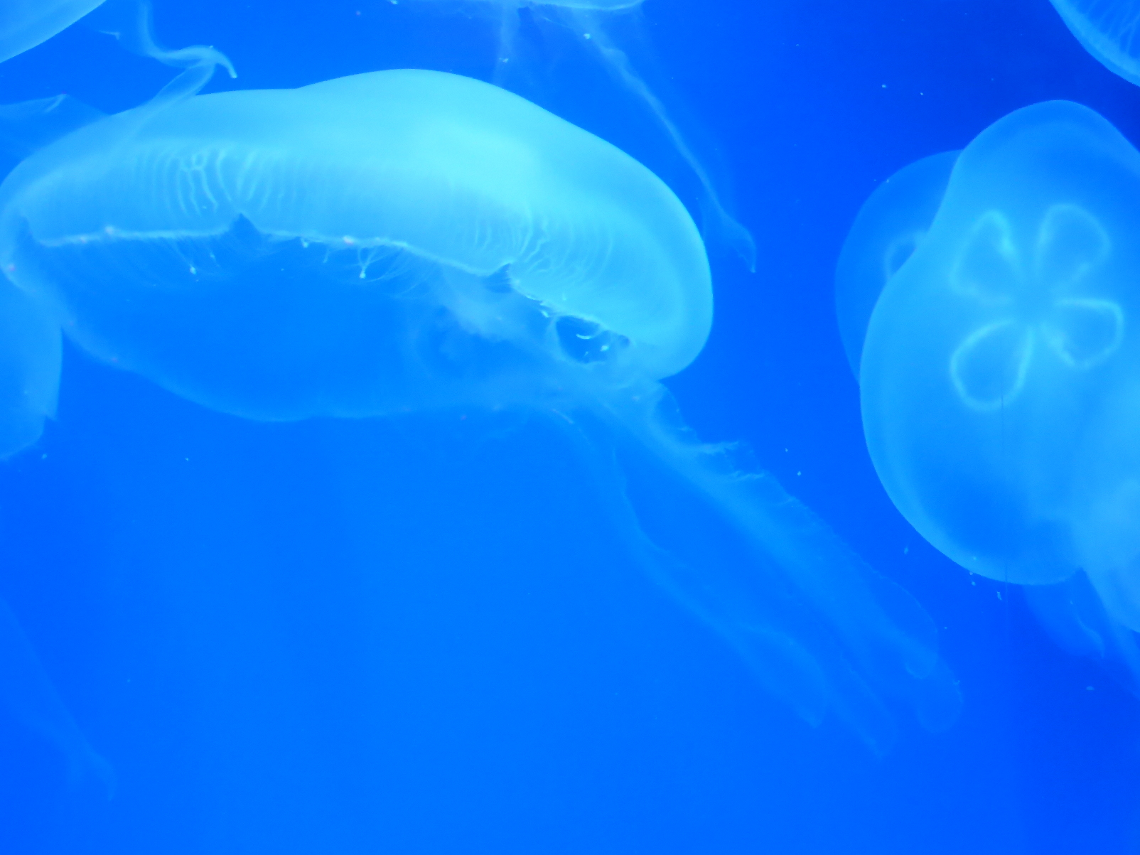 Moon jelly in a museum in Karlsruhe, Germany.